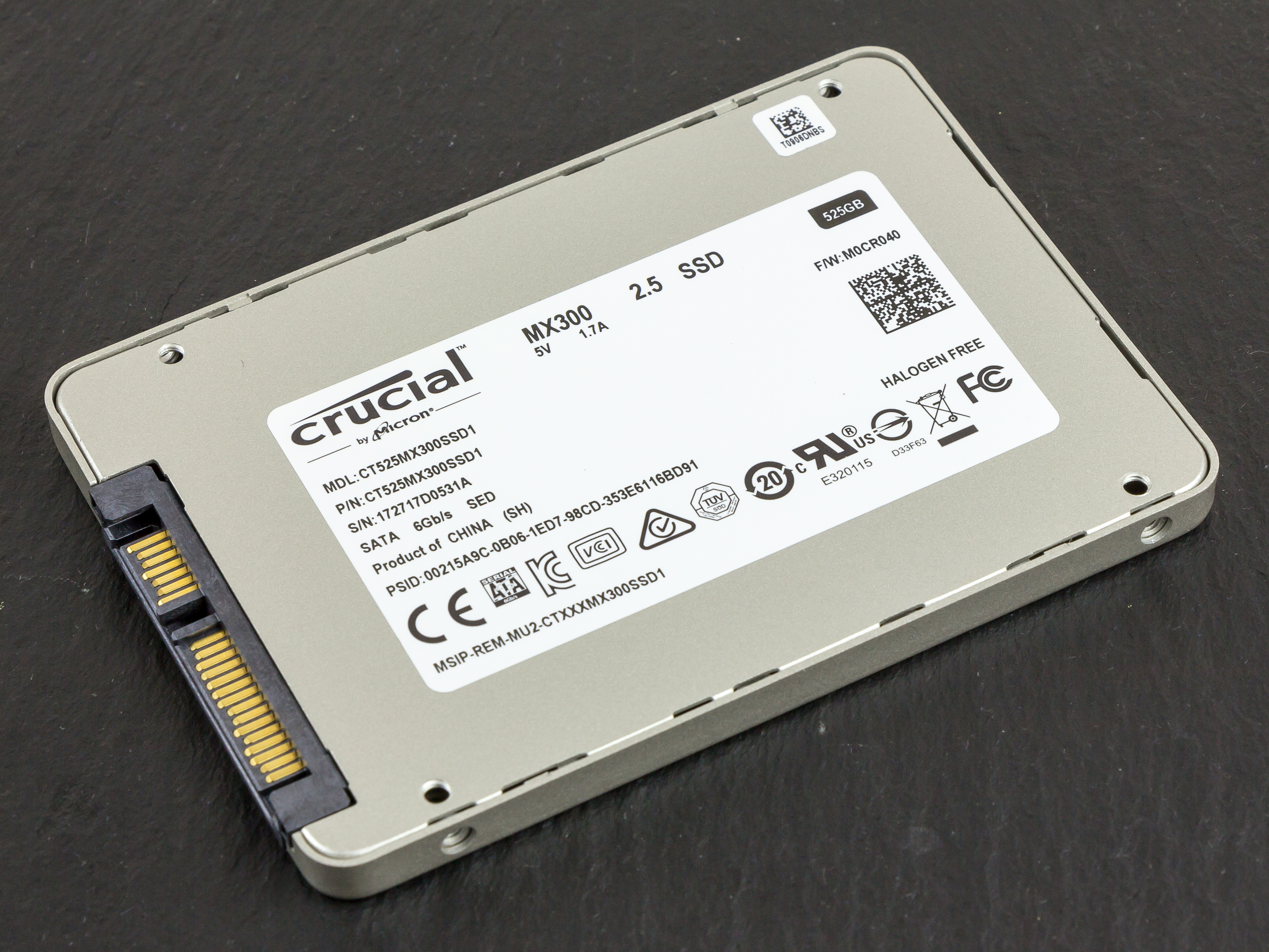 Crucial SSD MX300 525GB, 2.5""